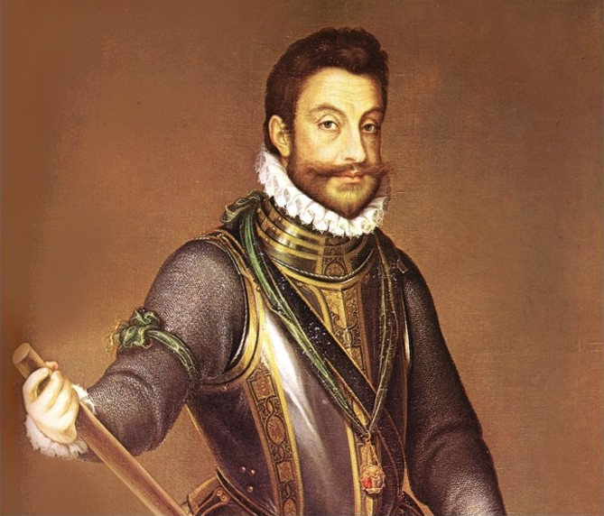 A portrait of Emmanuel Philibert of Savoy (1528-1580), at the El Escorial palace